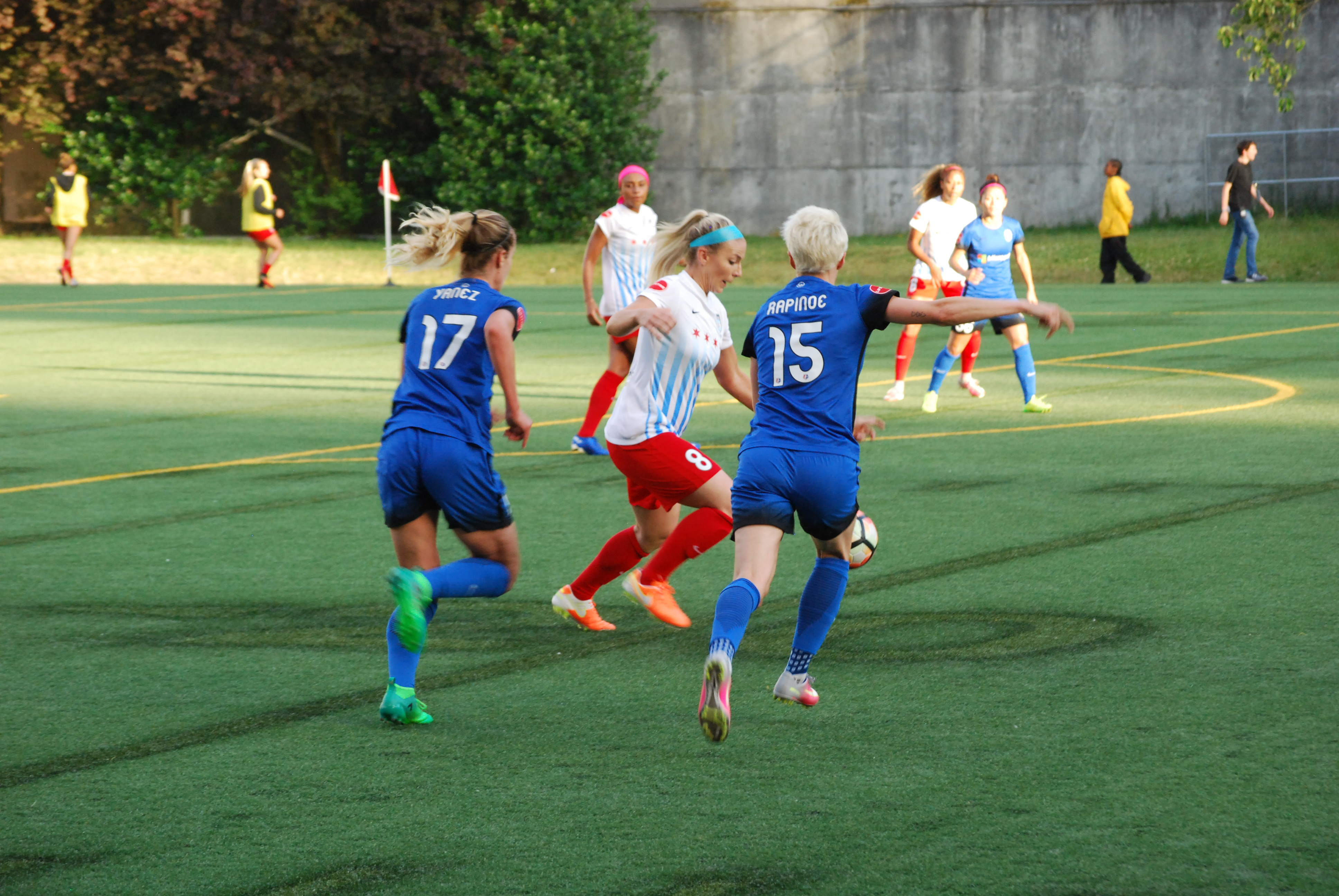 Players during a match between Chicago Red Stars and Seattle Reign, June 28, 2017